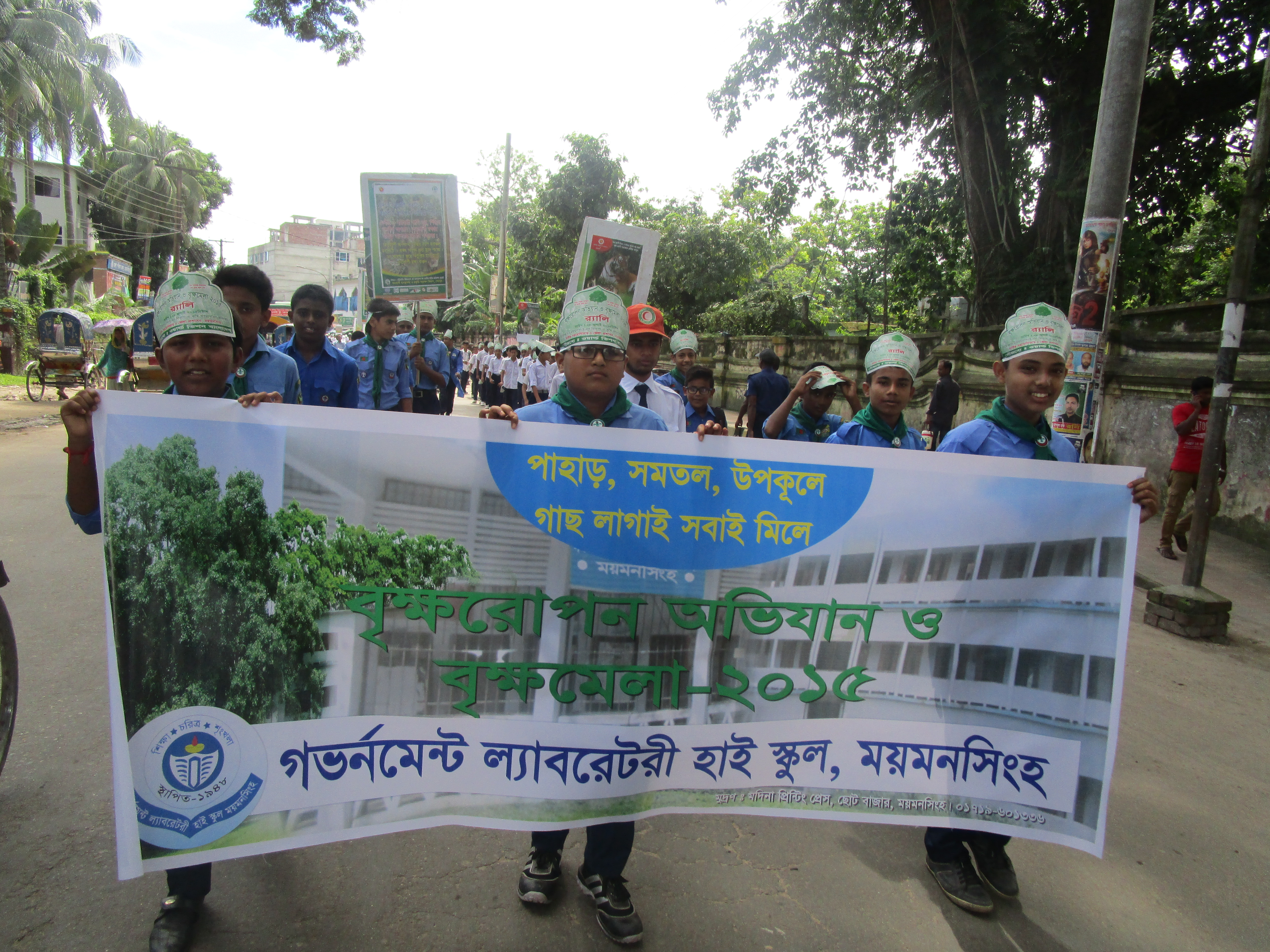 A Rally on Tree planting by the students of Government Labratory High School, Mymensingh.